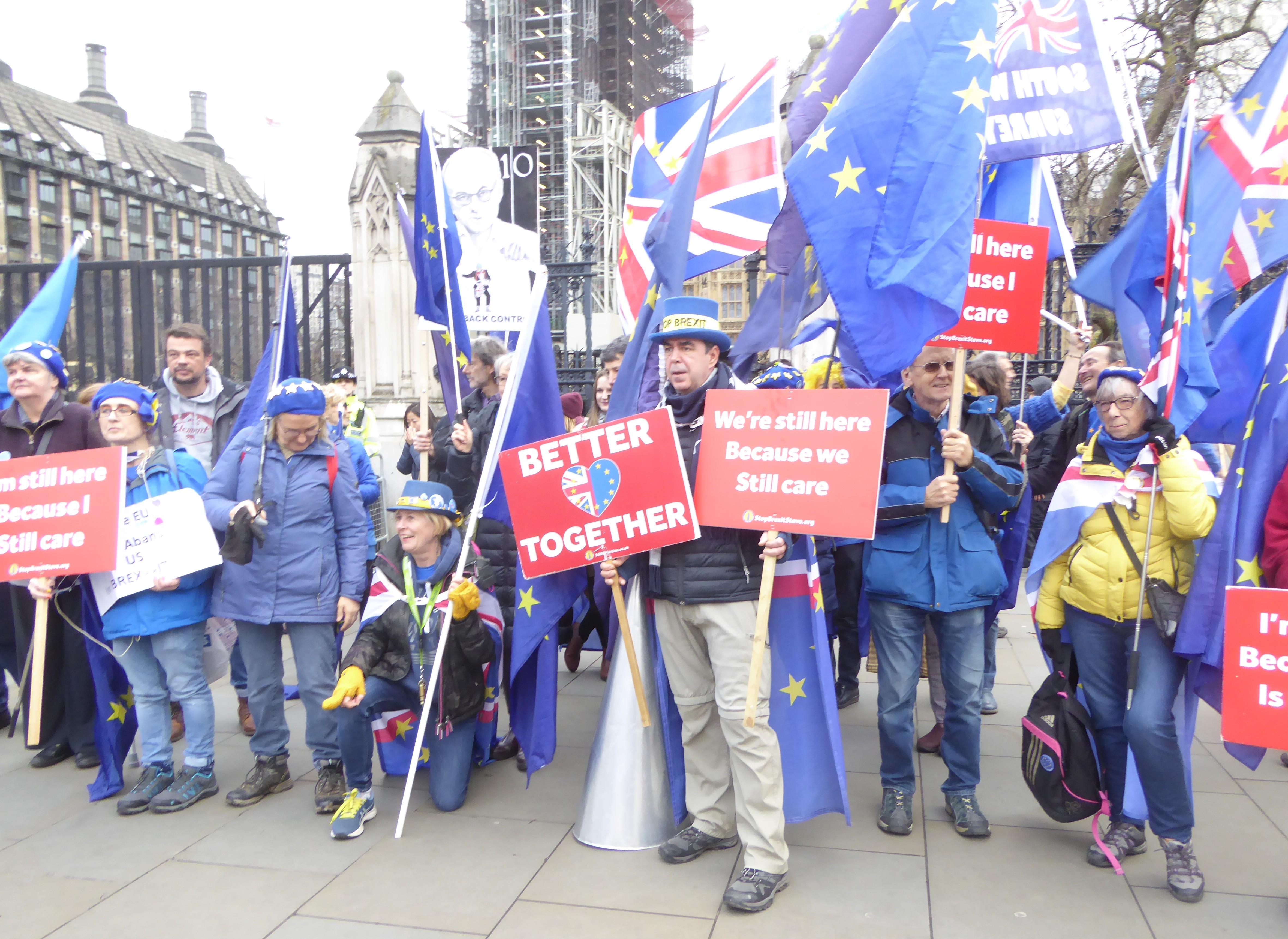 Sodem Action welcomes Ursula von der Leyen when she visited London 7th January 2020.